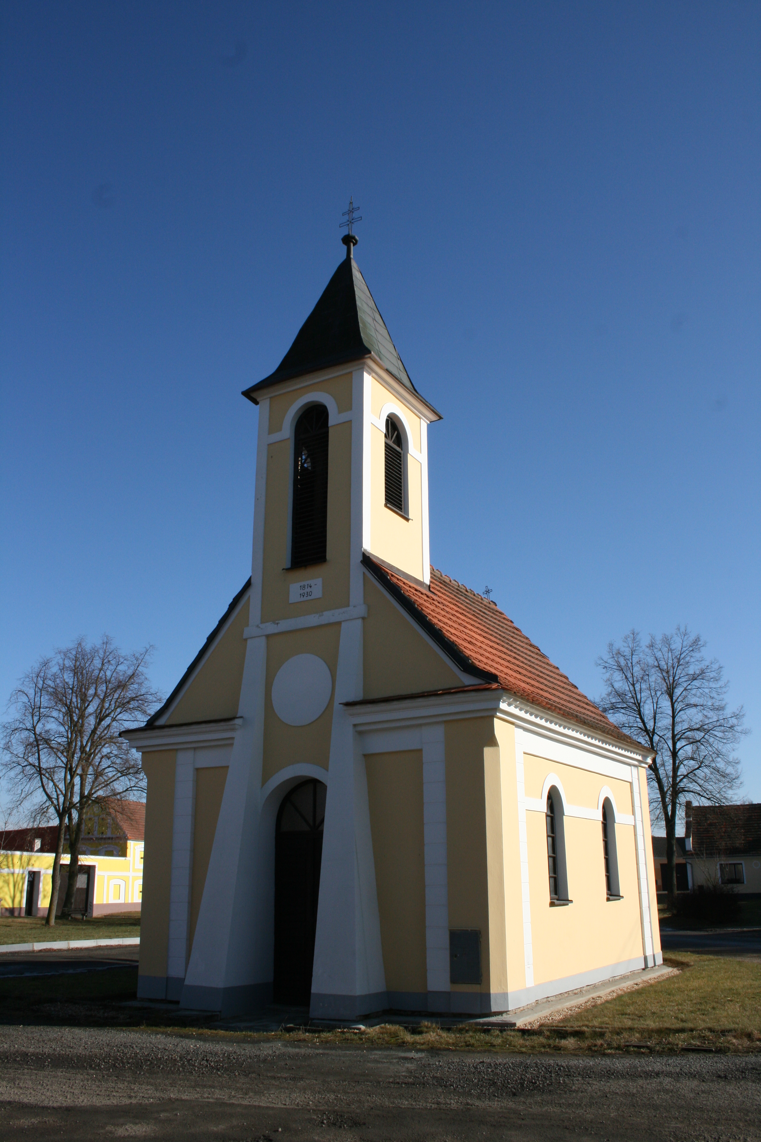 Borkovice Village, Tábor District, Czech Republic. Chapel.